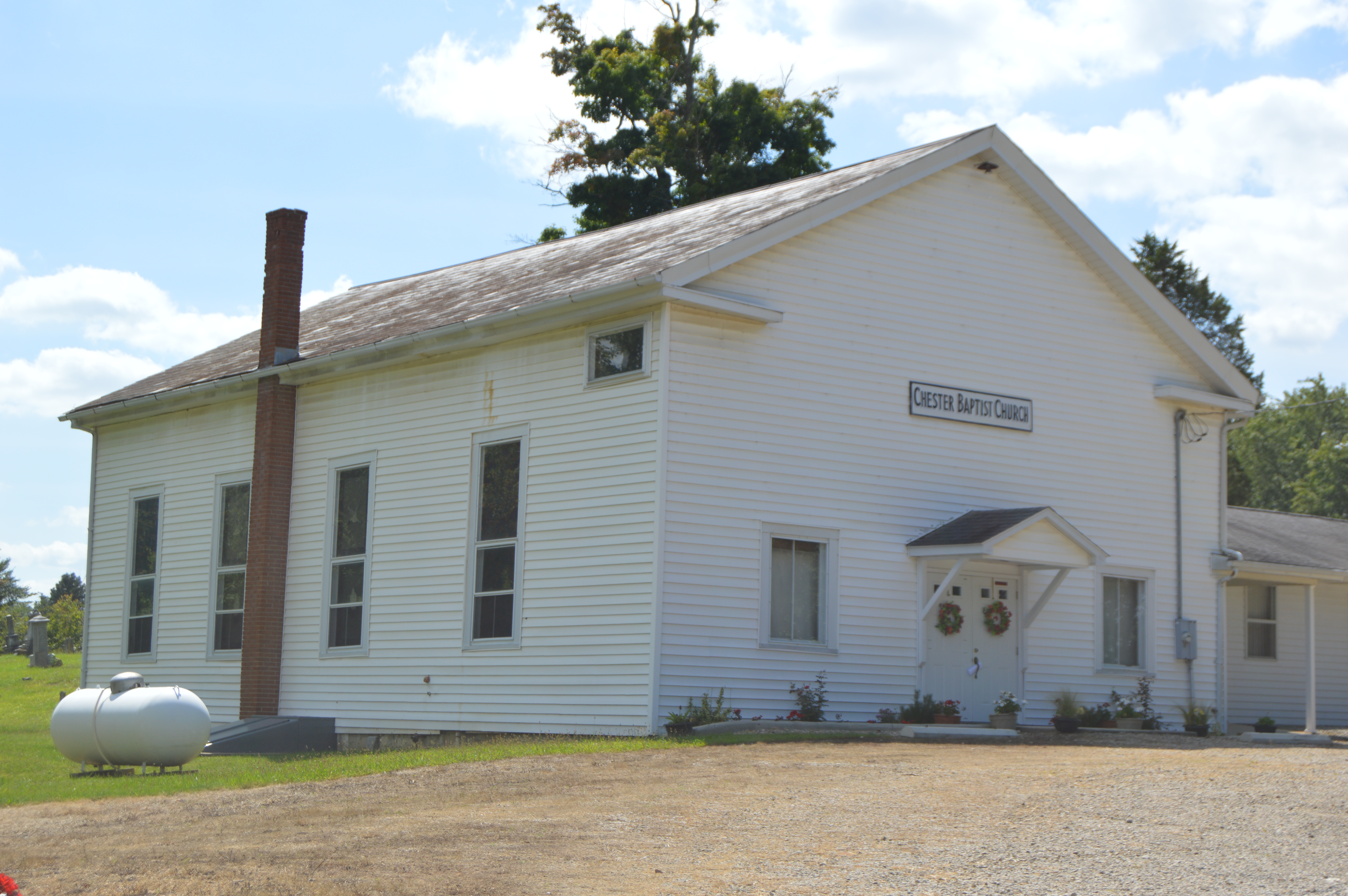 Front and eastern side of the Chester Baptist Church, located at the junction of State Route 314 and County Road 179 south of Chesterville in Chester Township, Morrow County, Ohio, United States. It was built in 1830.